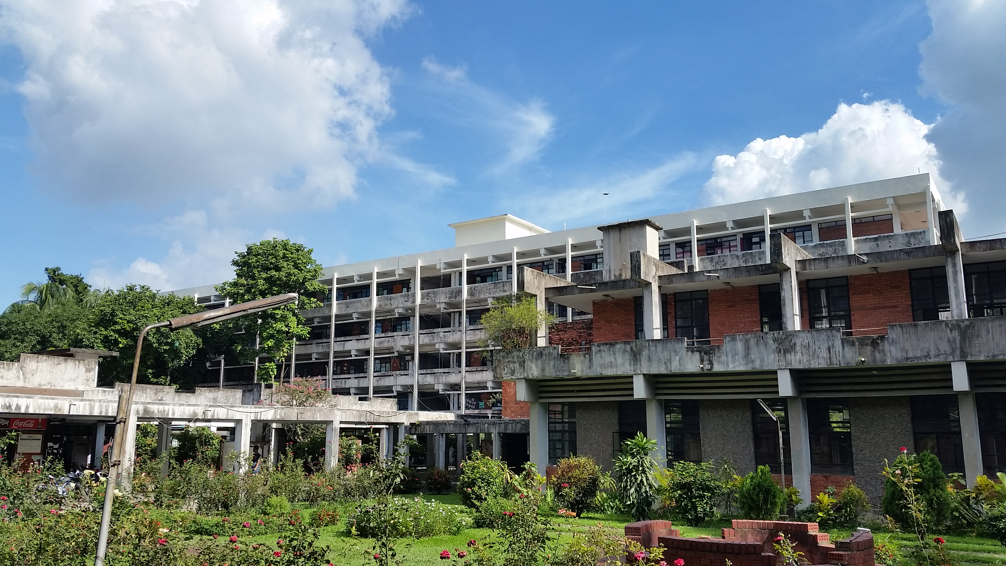 Titumir hall, one of the 8 dormitories of Bangladesh University of Engineering and Technology in Dhaka, Bangladesh.